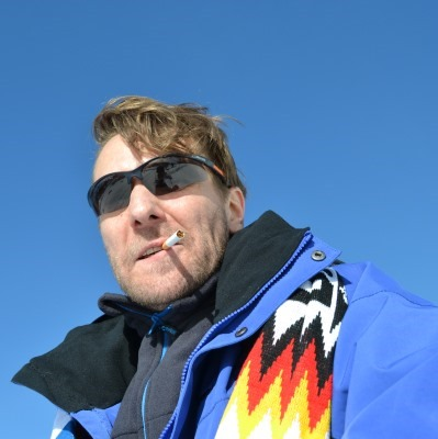 Nuno M. Gavina in Holmenkollen during the Biathlon World Cup 2013